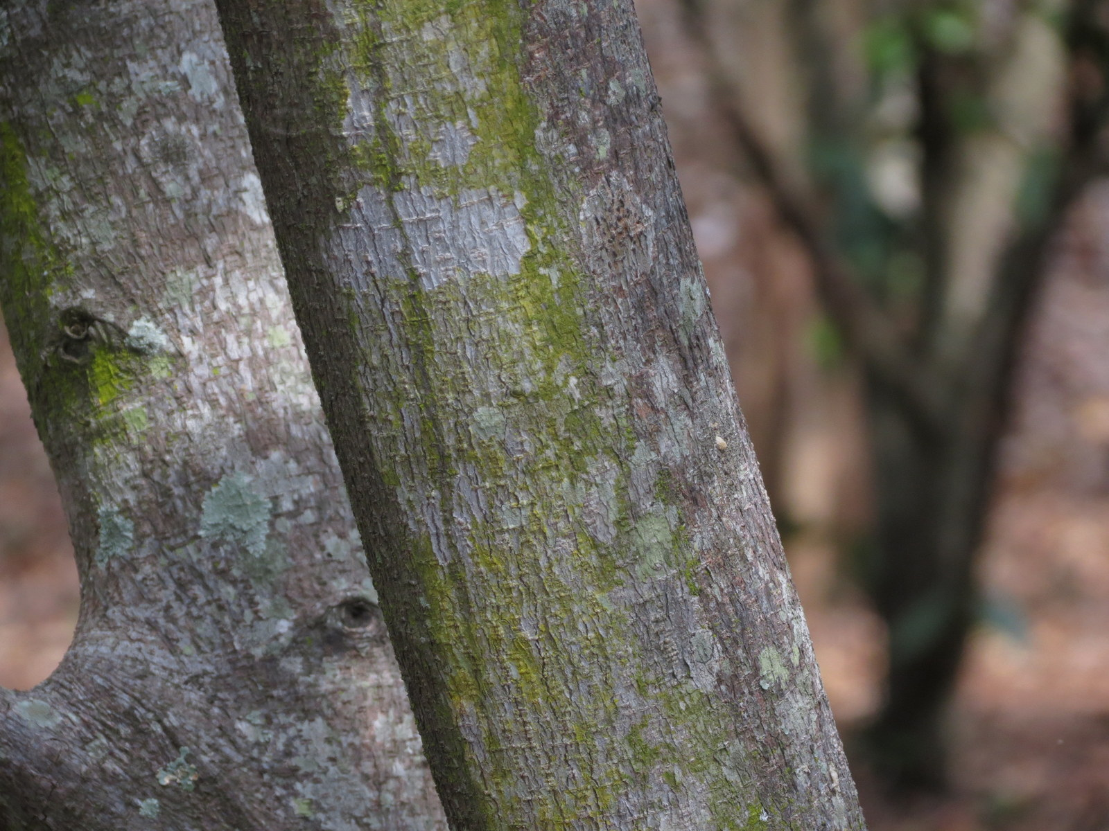 Ficus Tsjahela seen in Nilgiri Biosphere Nature park, Anaikatty Coimbatore.